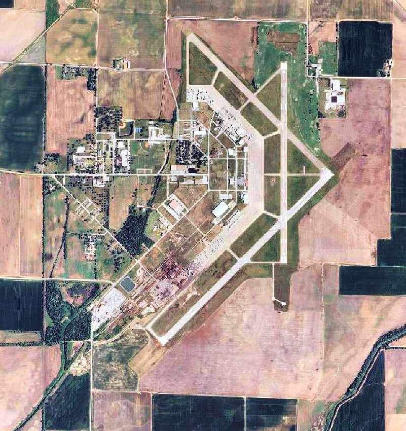 USGS digital orthophoto of Walnut Ridge Regional Airport in Walnut Ridge, Lawrence County, Arkansas, United States